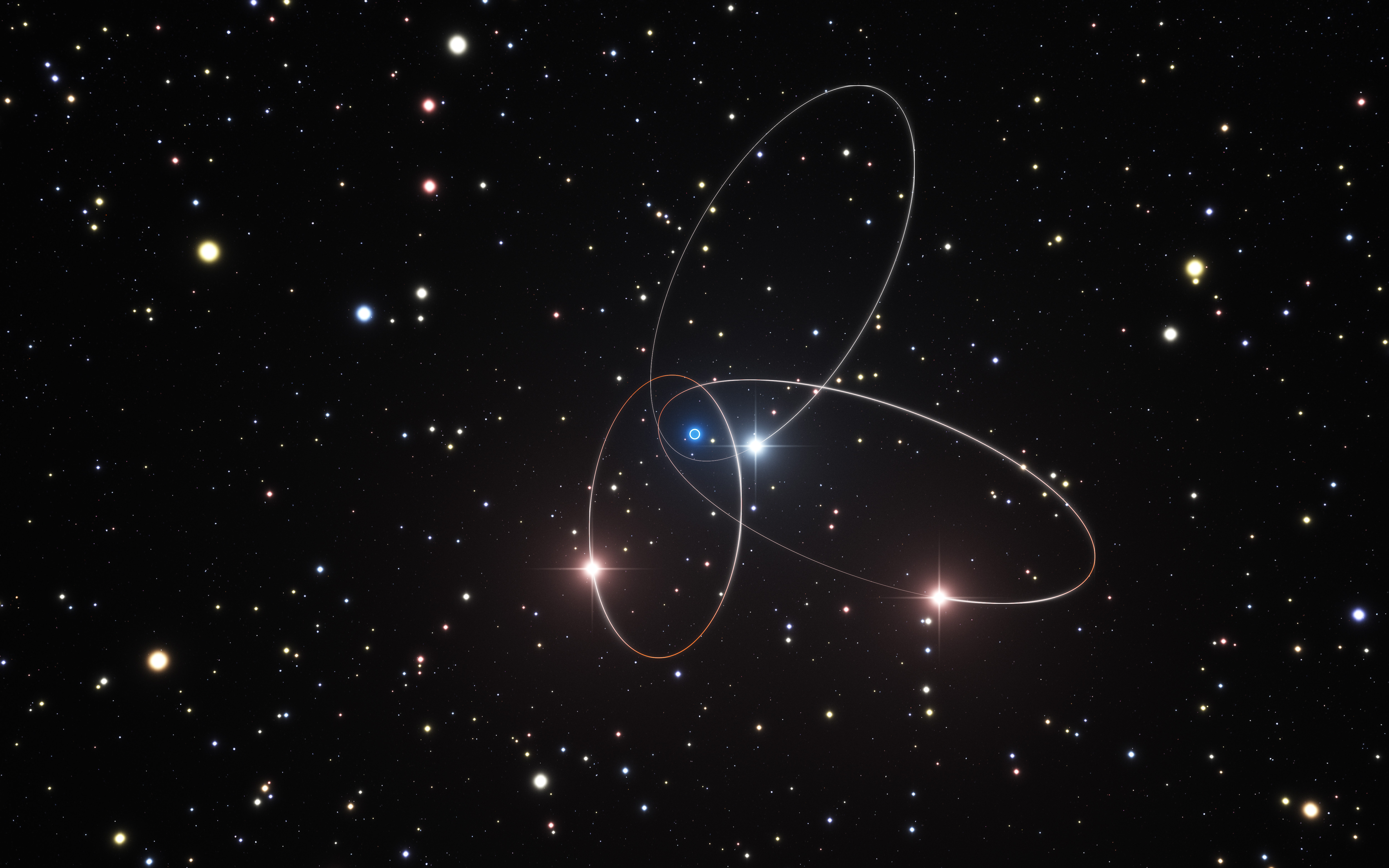 This artist's impression shows the orbits of three of the stars very close to the supermassive black hole at the centre of the Milky Way. Analysis of data from ESO’s Very Large Telescope and other telescopes suggests that the orbits of these stars may show the subtle effects predicted by Einstein’s general theory of relativity. There are hints that the orbit of the star called S2 is deviating slightly from the path calculated using classical physics. The position of the supermassive black hole is marked with a white circle with a blue halo. Credit: ESO/M. Parsa/L. Calçada